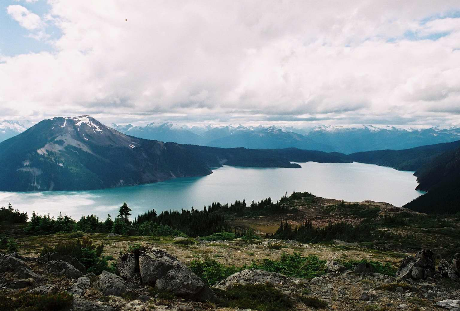 Garibaldi Lake with Mountt Price behind on the left.